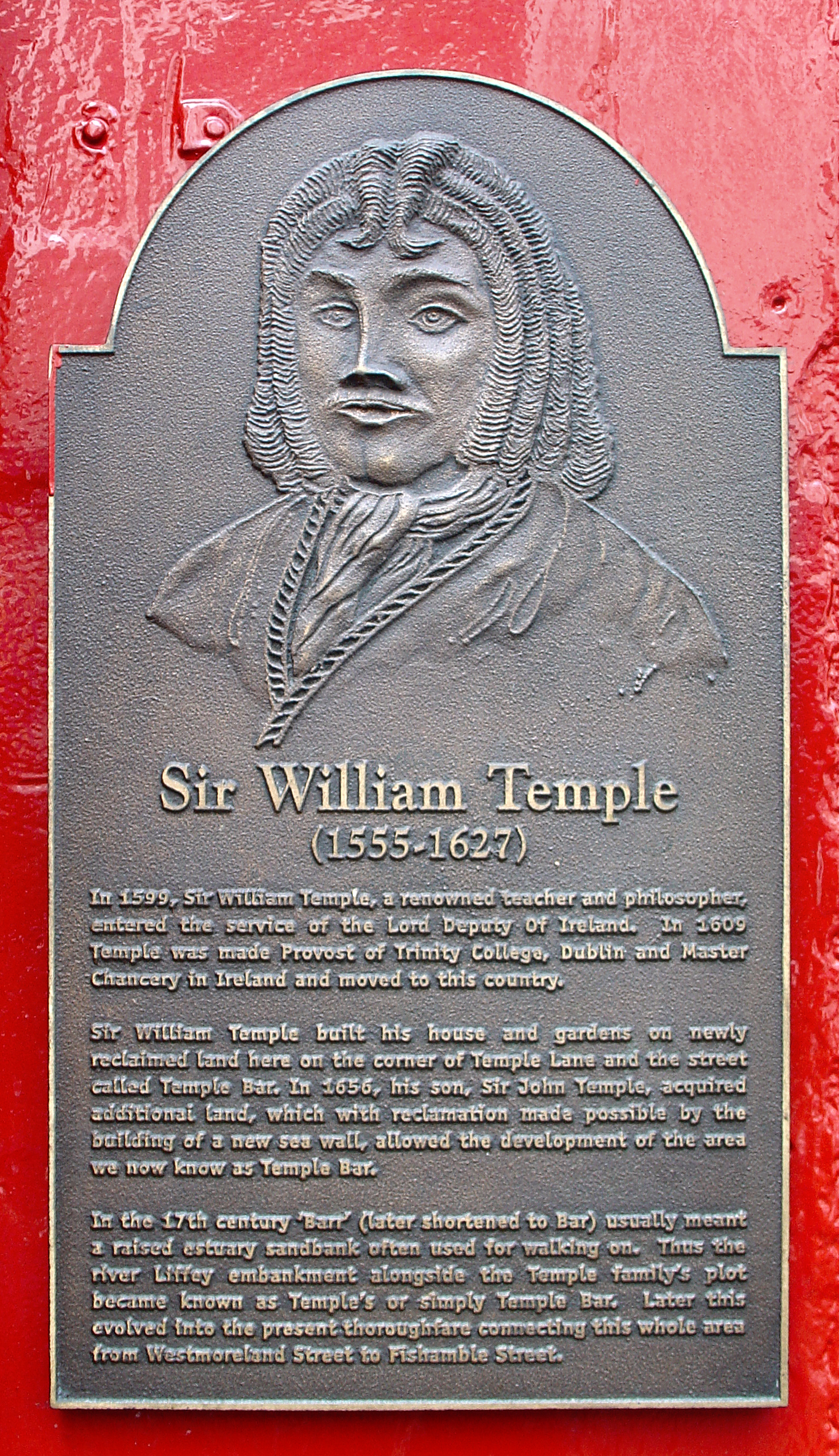 Sir William Temple Plaque - Temple Bar, Dublin, Ireland